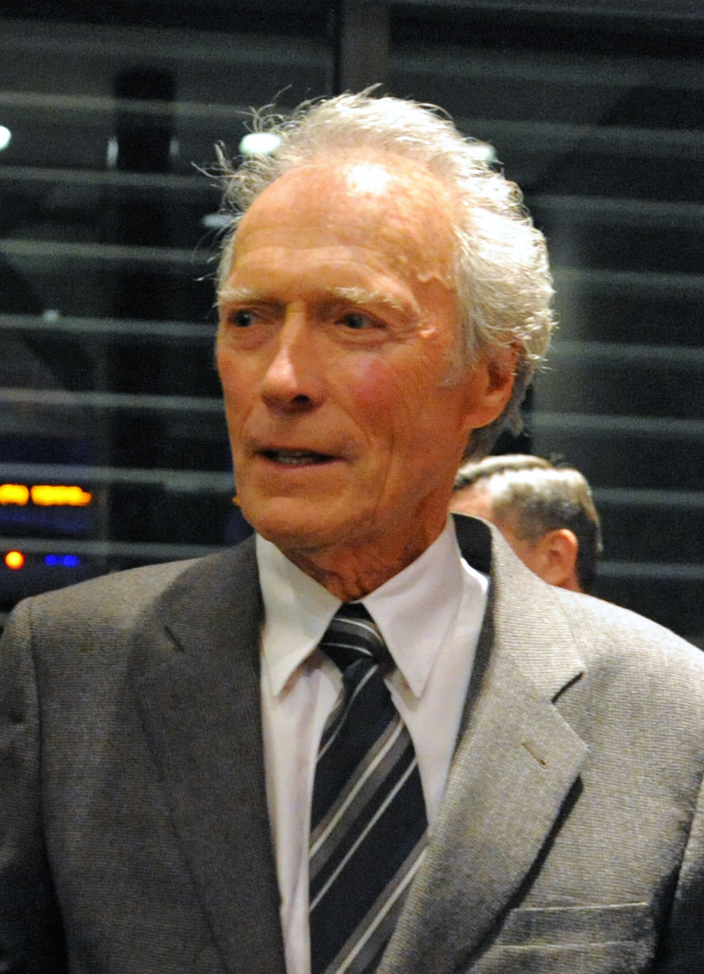 Mr. Clint Eastwood speaks with Secretary of Defense Leon E. Panetta at the Washington D.C. premier of the movie "J Edgar" on November 8, 2011. Mr. Eastwood's film portrays the secret life of J. Edgar Hoover who was the face of law enforcement for over 50 years.(DOD photo by Erin A. Kirk-Cuomo)(Released)